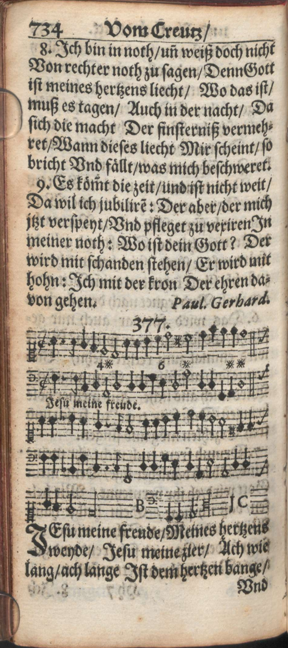 Page with Jesu, meine Freude from Johann Crüger's Lutheran hymnbook Praxis Pietatis Melica published in Berlin in 1653